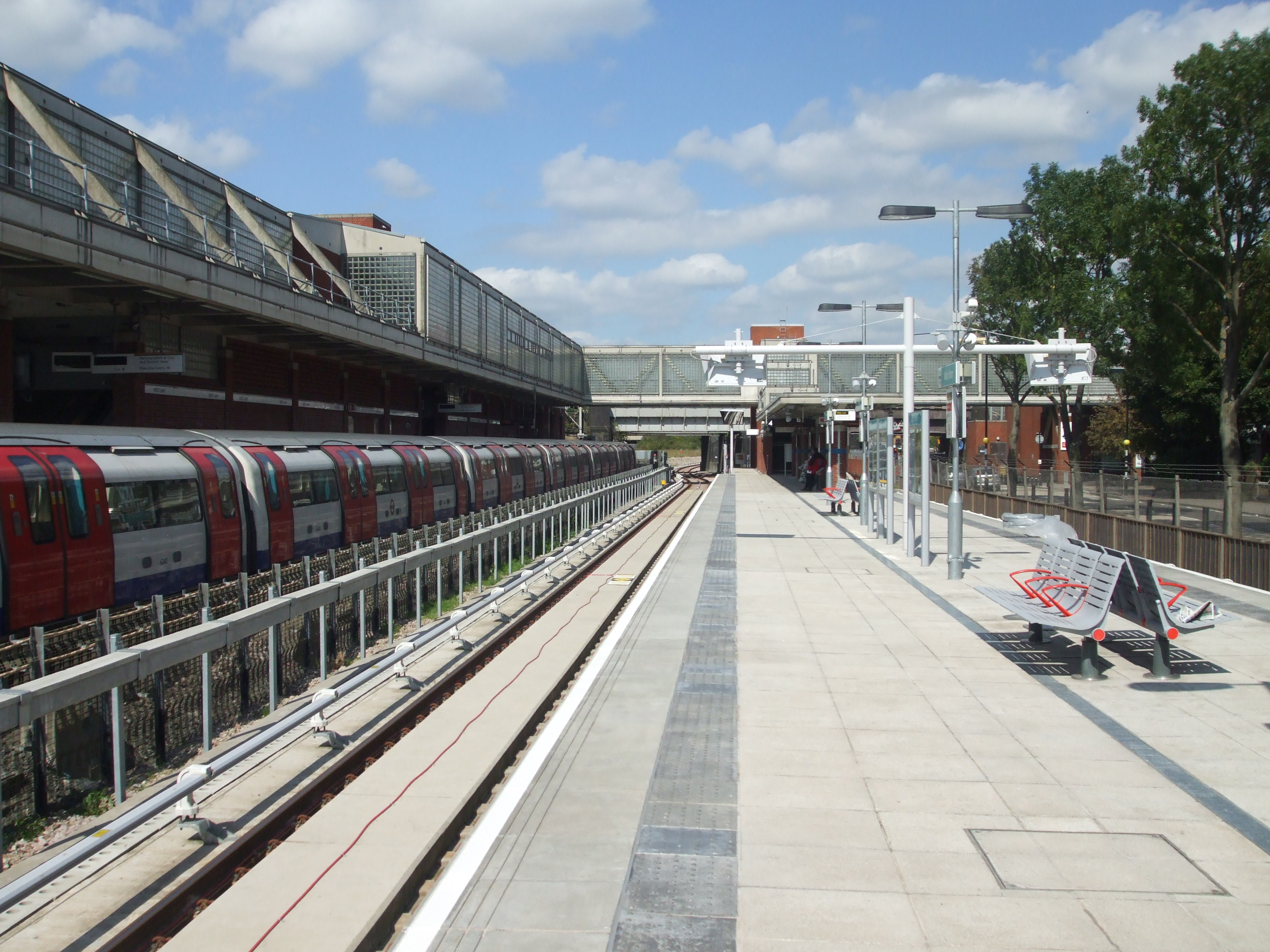 West Ham station northbound DLR platform looking north, soon after opening. The platforms until 2006 were served by the North London Line On the far left are the Jubilee platforms, opened in 1999.